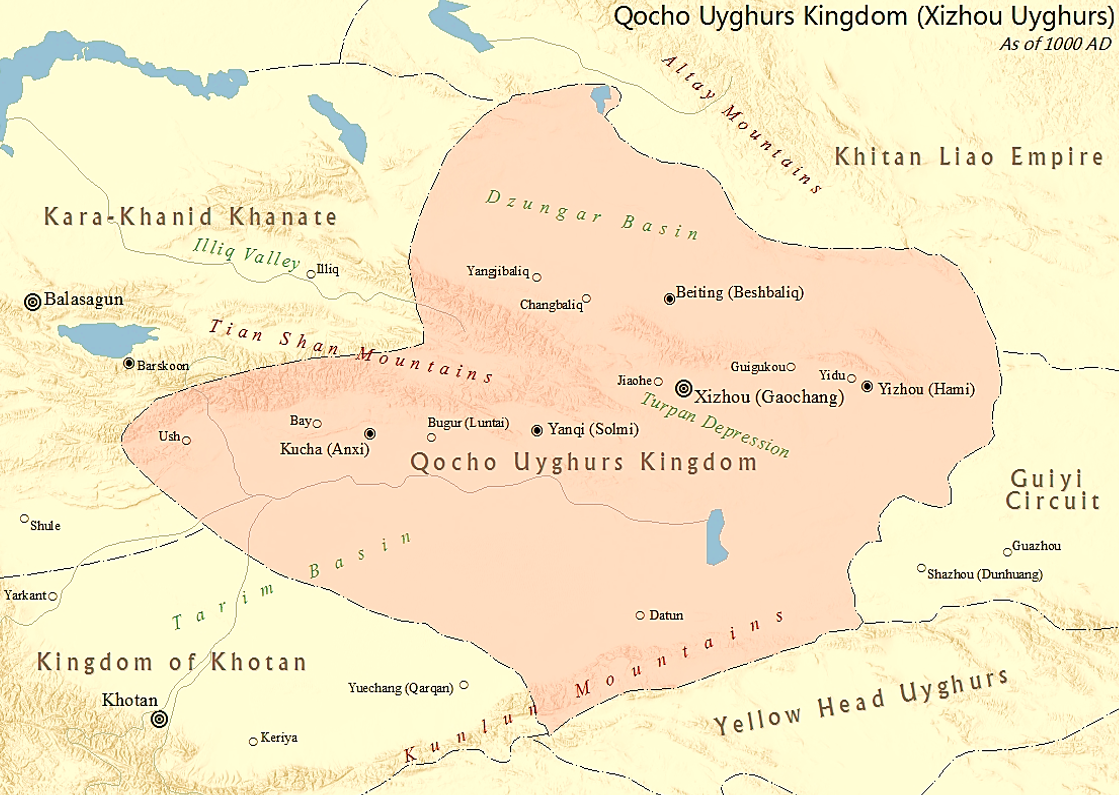 Map showing the territory of Qocho Uyghurs Kingdom (Xizhou Uyghurs or Gaochang Uyghurs) as of 1000 AD